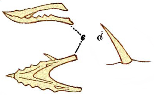 Rhamphocephalus bucklandi holotype jaw and tooth.